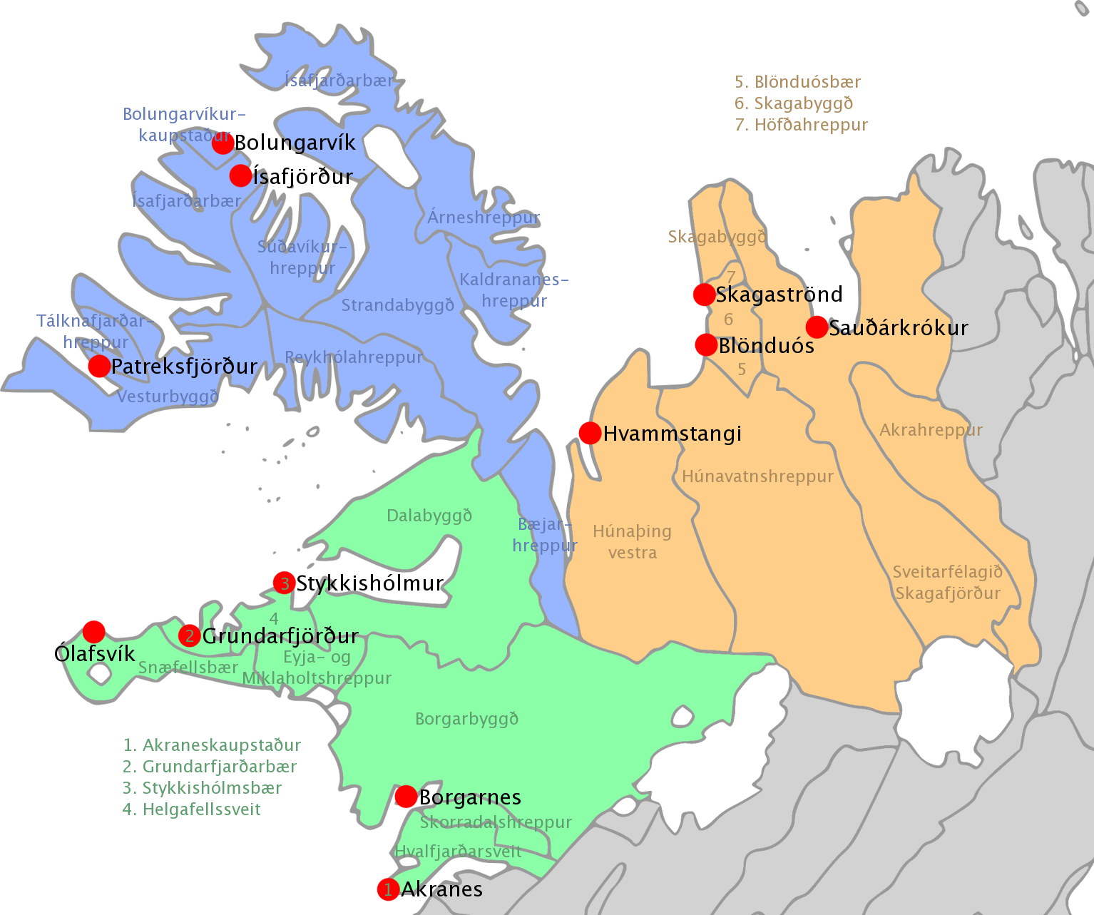 A map of the Northwest electoral district in Iceland.